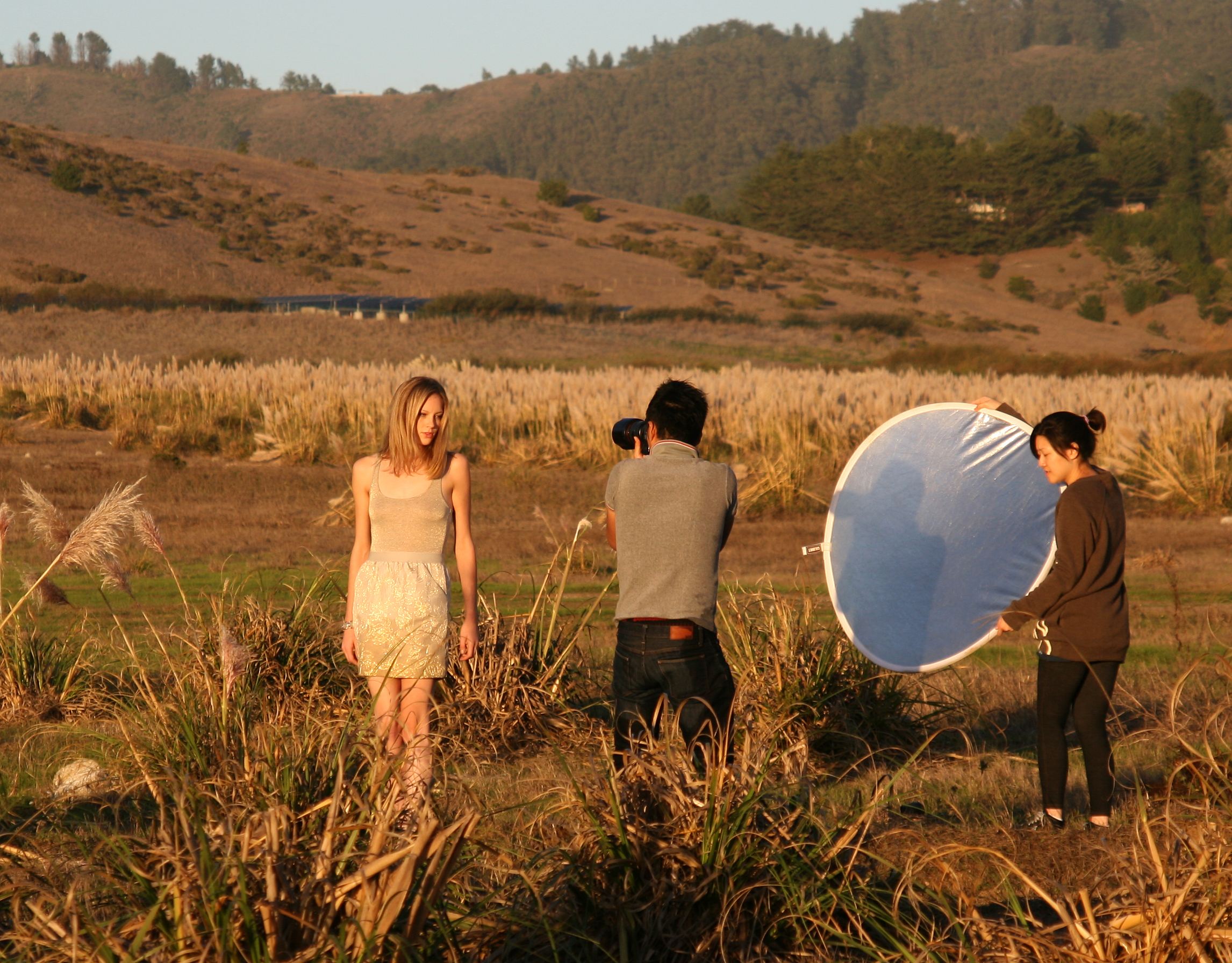 Photographing a model